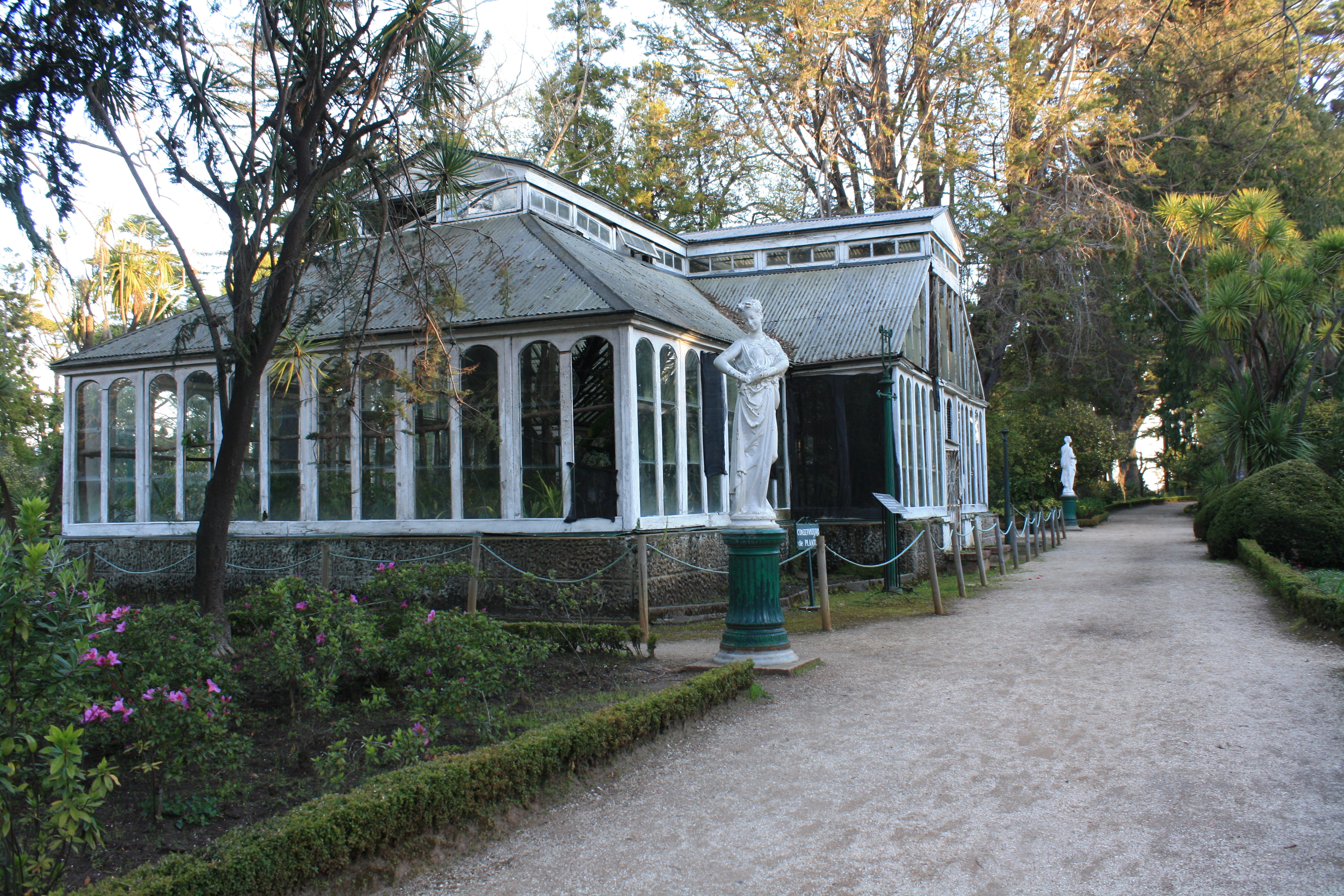 This is a photo of a national monument in Chile: 2130